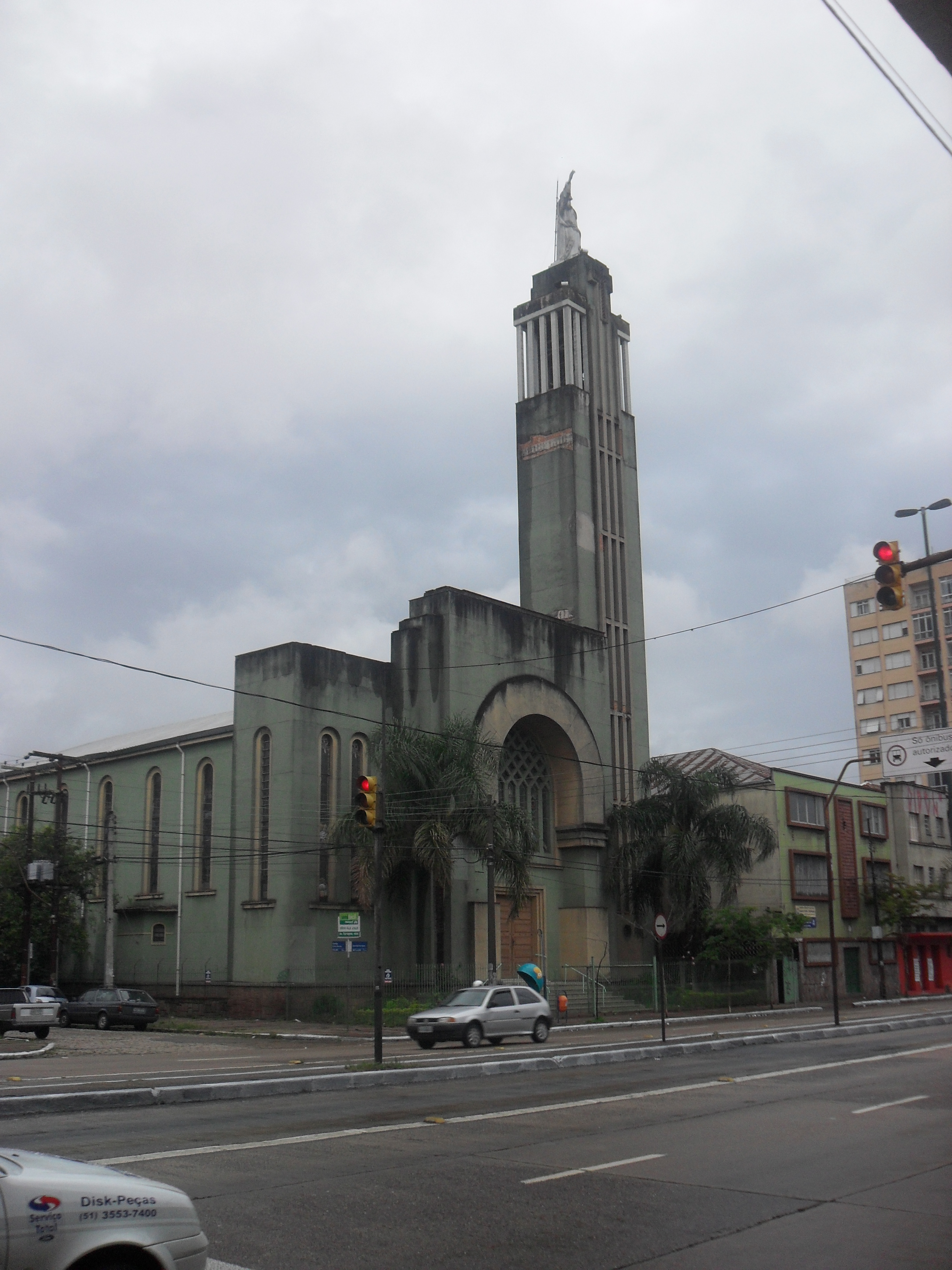 Saint Gerard church in Porto Alegre, Rio Grande do Sul, Brazil